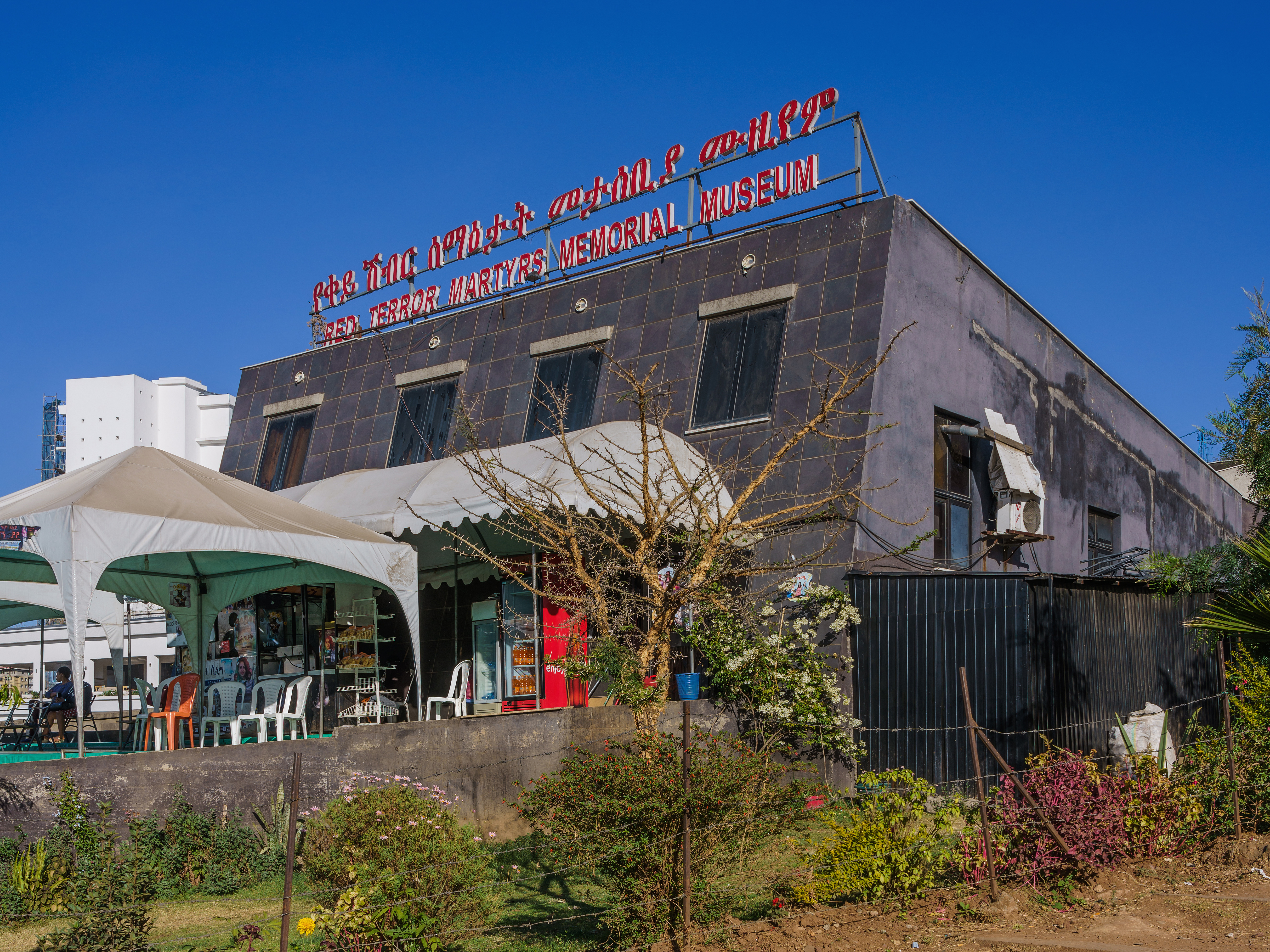 Building of the Red Terror Martyrs' Memorial Museum in Addis Ababa, Ethiopia